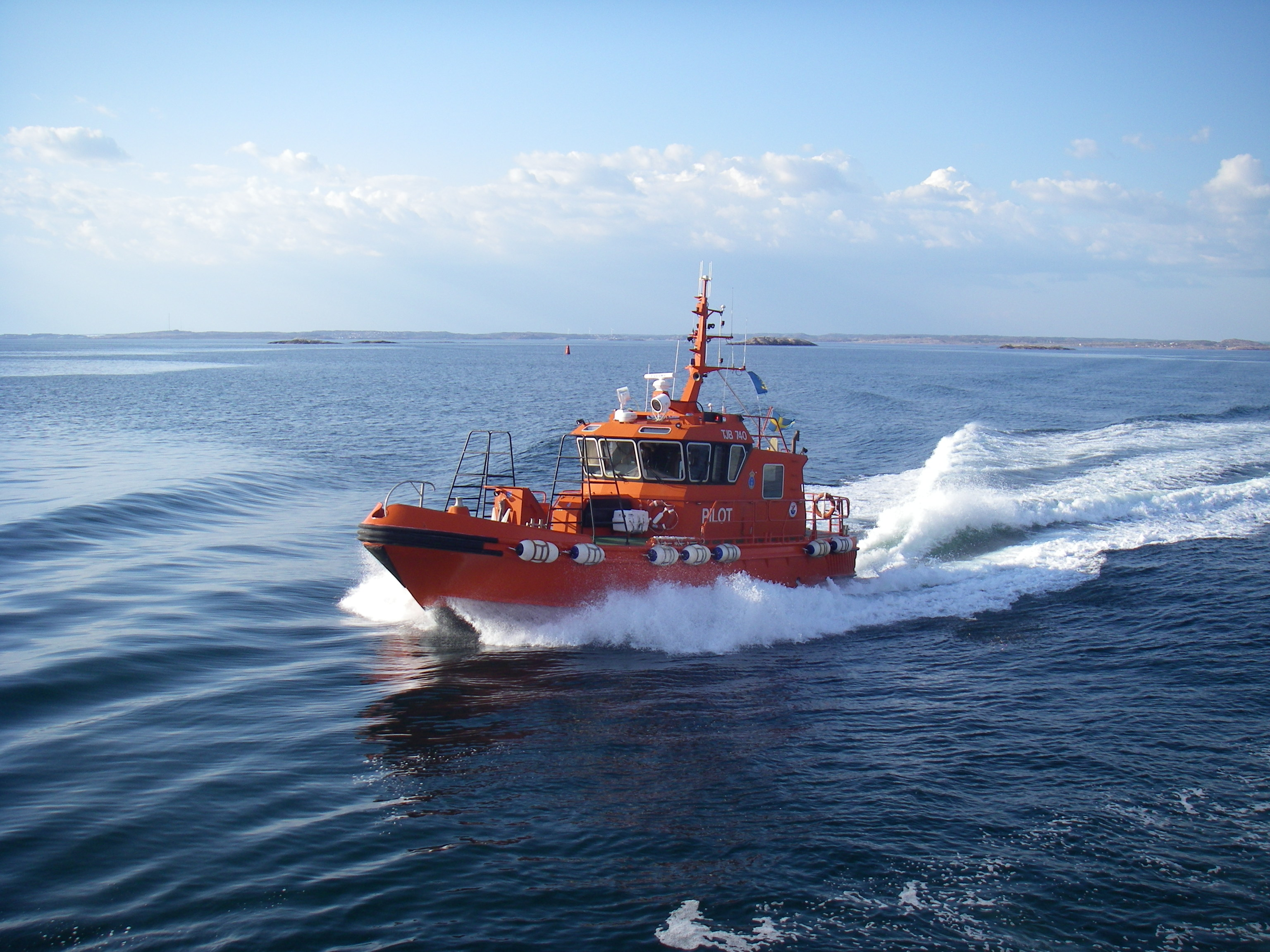 Pilot boat in Brofjorden on the Swedish west coast just before boarding ship